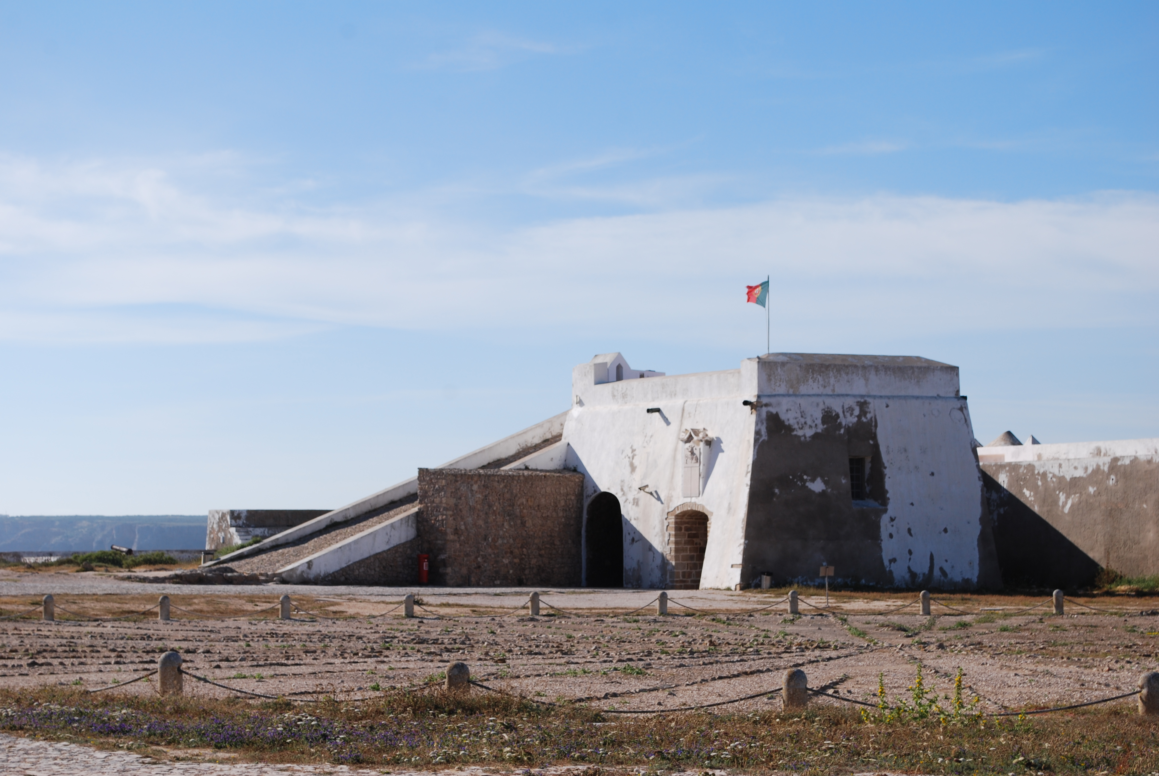 This file was uploaded for Wiki Loves Monuments in Portugal with the unique identifier 70550.